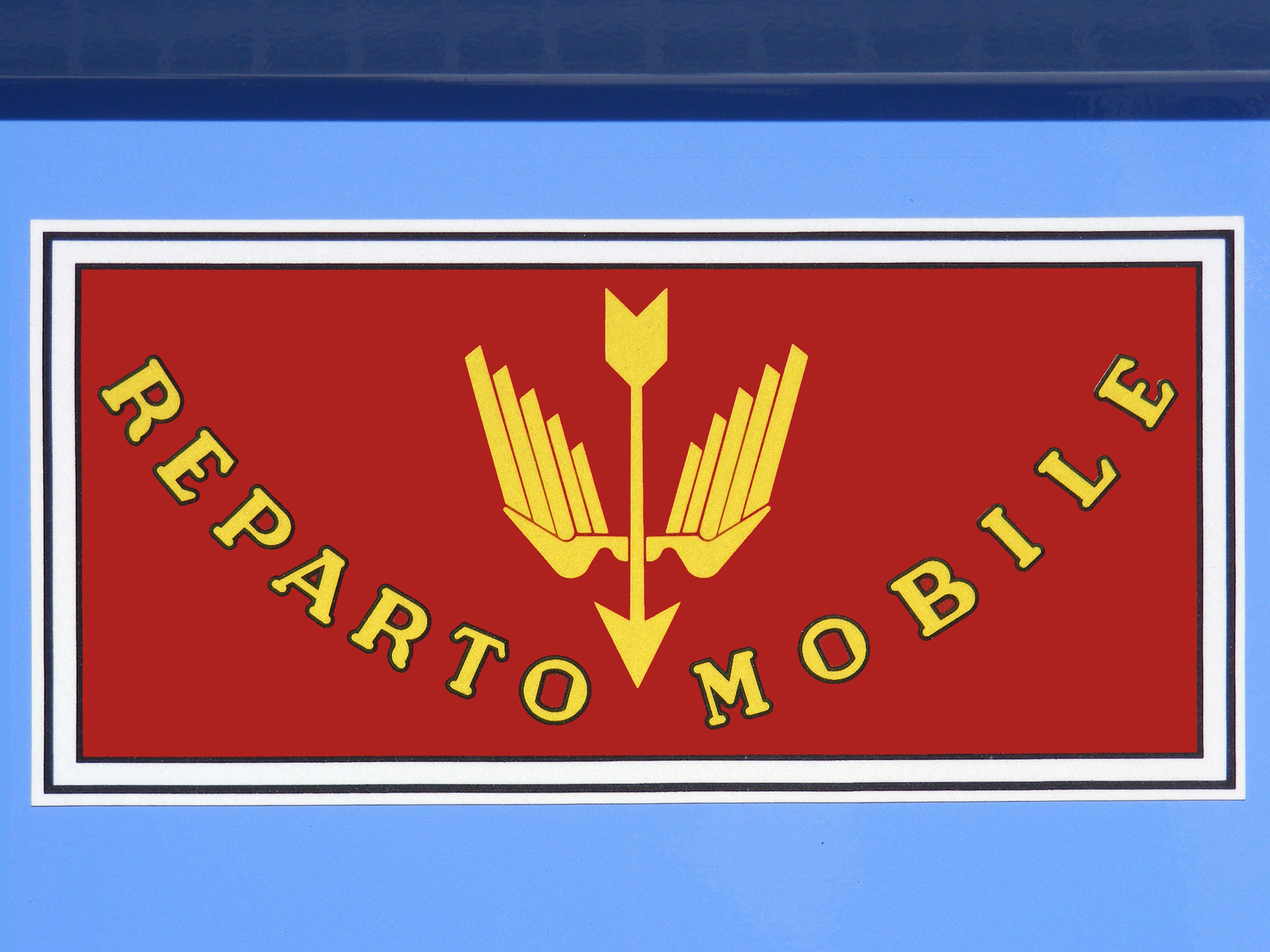 Polizia di Stato - “Reparto mobile” (Italy)